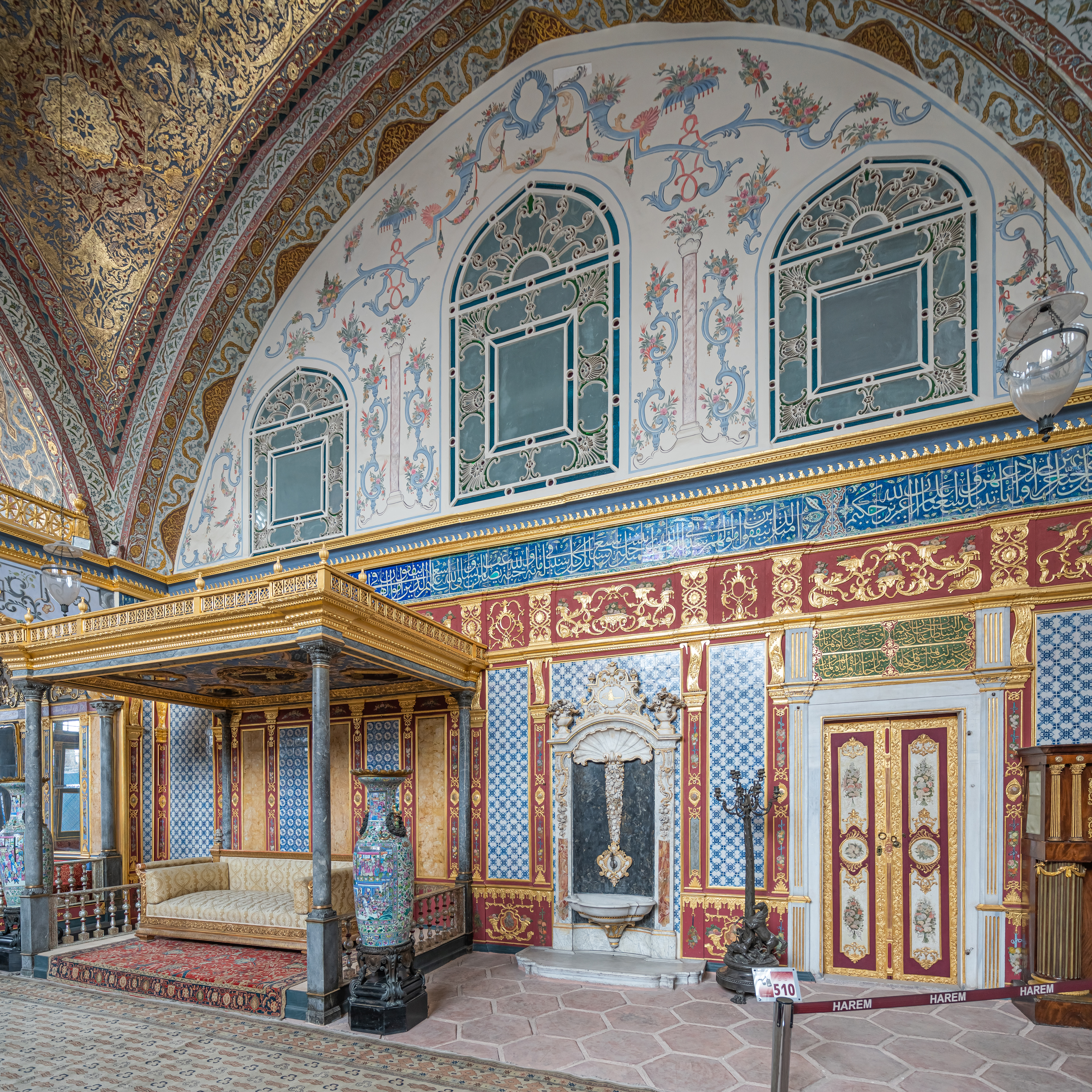 Detail of the Imperial Hall in Harem of Topkapı Palace in Istanbul, Turkey